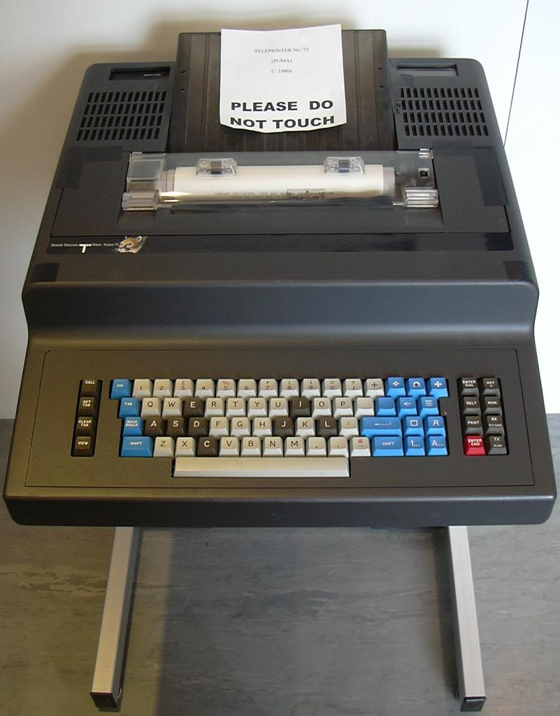 Puma telex terminal, at the communications hall of the Amberley working museum in Sussex, GB. Taken by WikiPedia user kierant on 12sep2004.